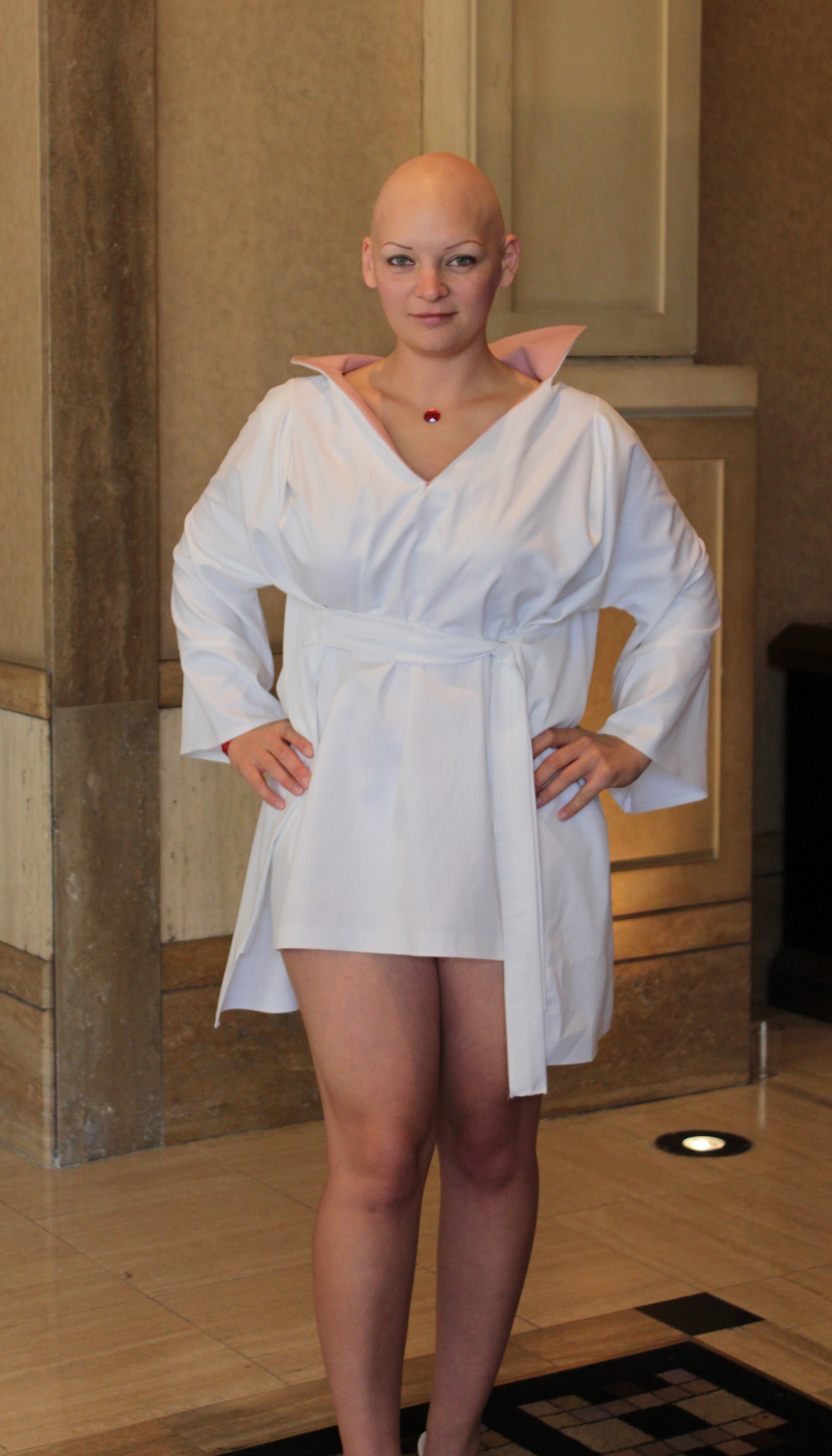 Cosplay of Star Trek at Las Vegas 2013